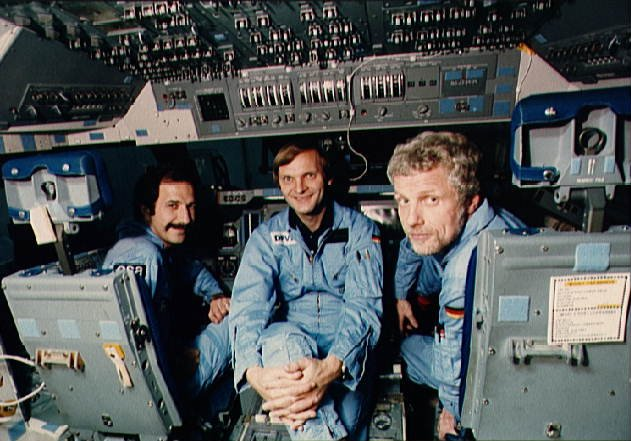 Three European scientists have been named as payload specialists for the Spacelab D-1 (STS 61A) mission. They are (l.-r.) Wubbo Ockels of Holland and the European Space Agency (ESA); Ernst Messerschmid and Reinhold Furrer, both of West Germany and the DFVLR. They are pictured in the crew compartment trainer (CCT) at JSC.